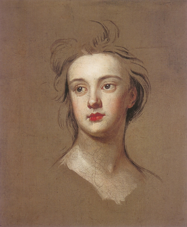 Unfinished portrait of Sarah Jennings, Duchess of Marlborough.